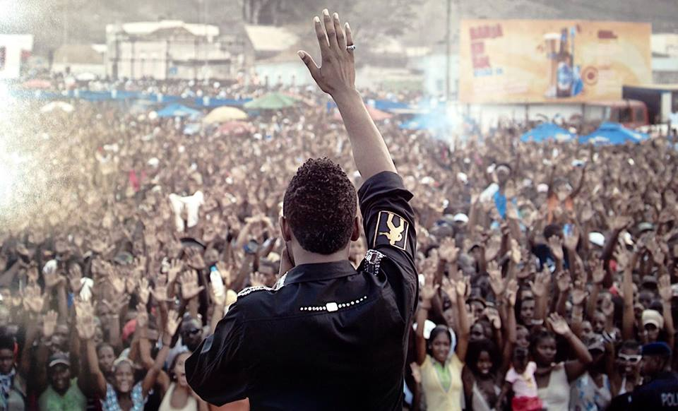 Release of Stribilin! on CD on July 5, 2009